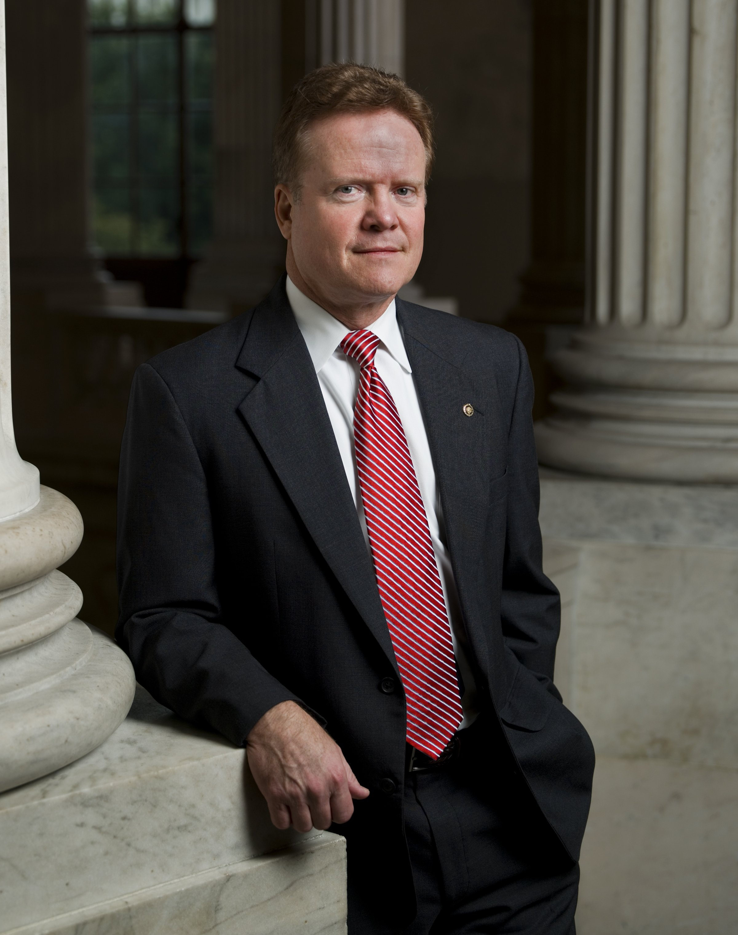 Jim Webb, member of the United States Senate from Virginia.